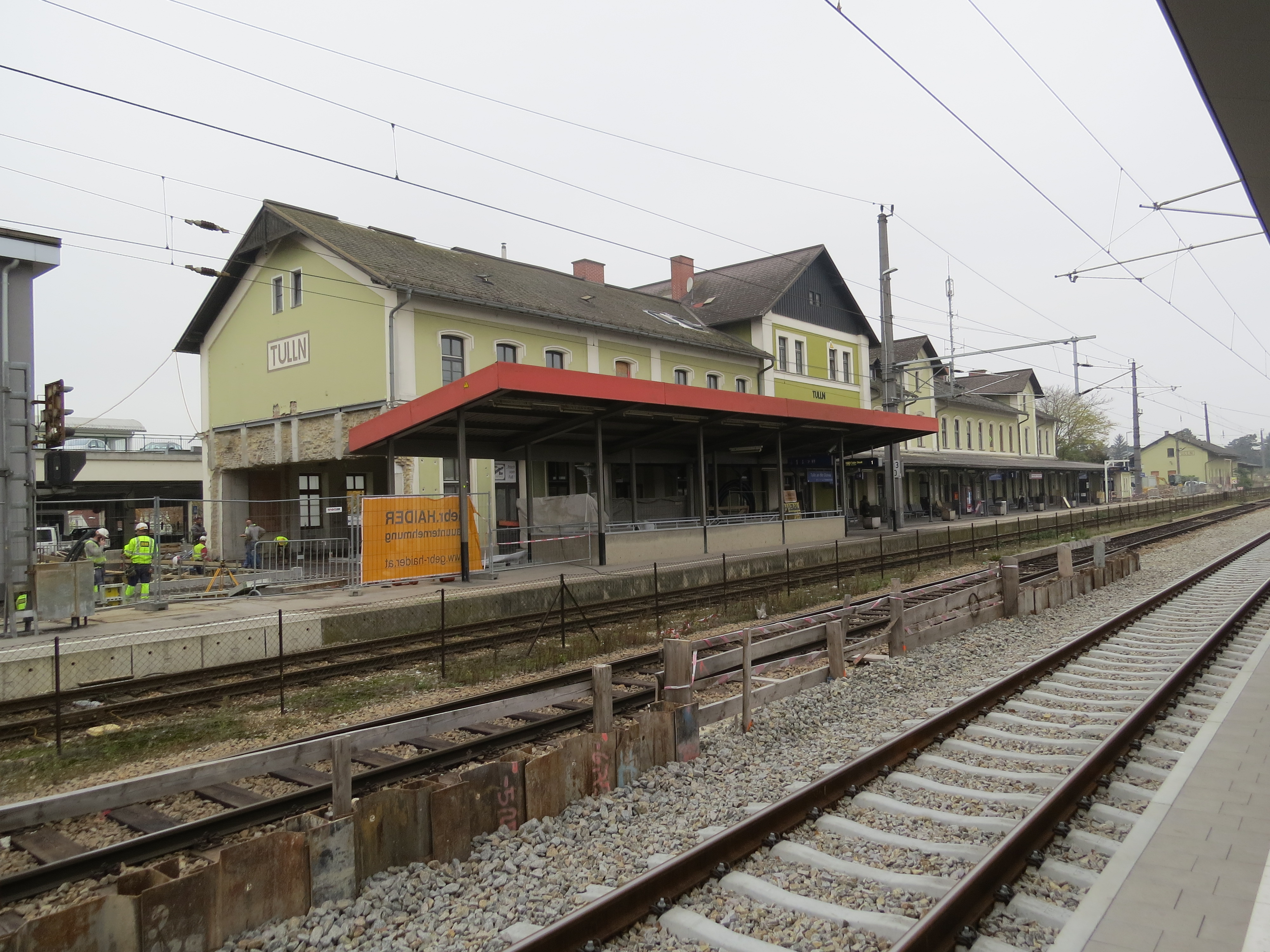 Building site at Bahnhof Tulln an der Donau